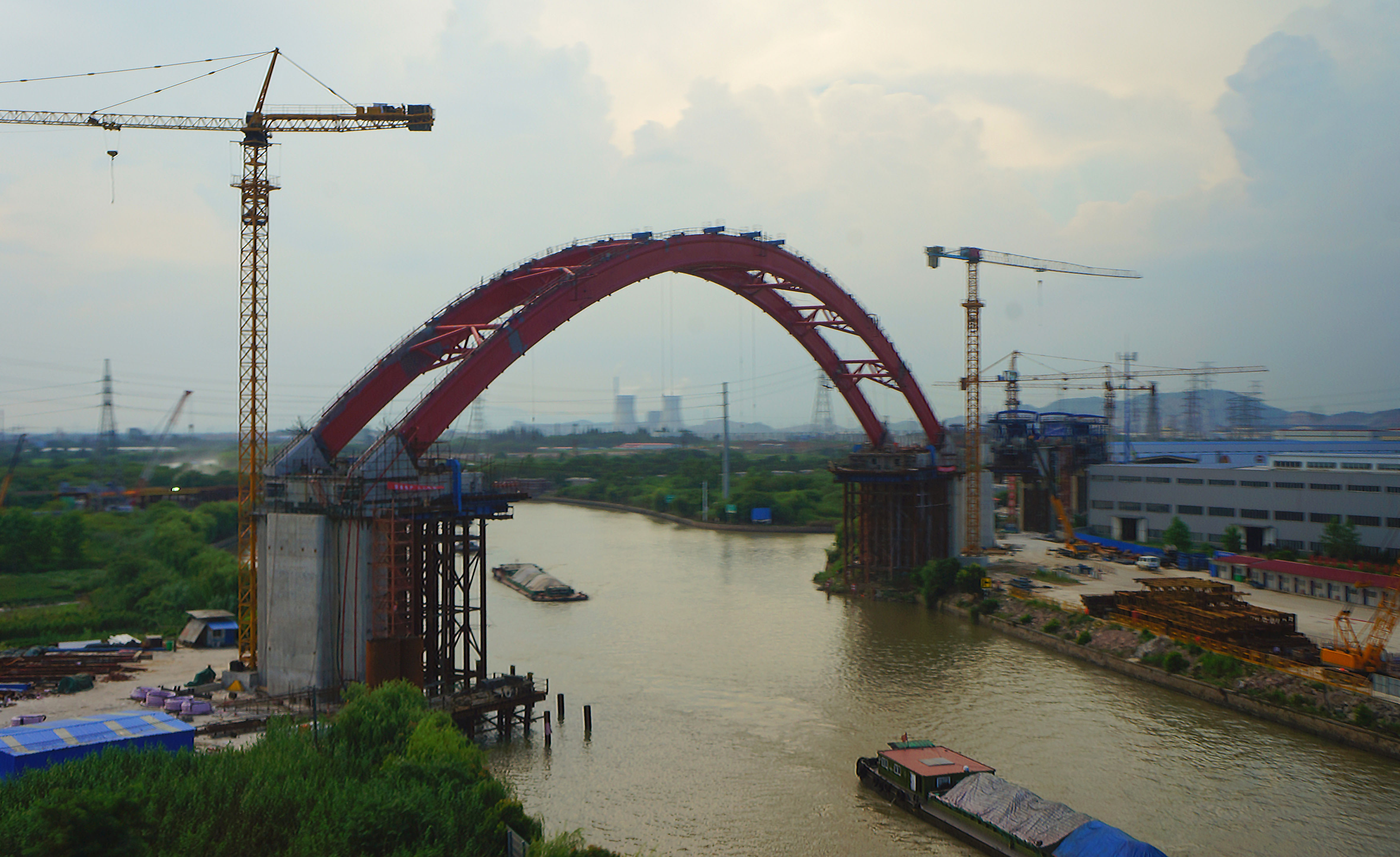 201806 Shangqiu-Hangzhou HSR Zhaoxi Bridge North under Construction